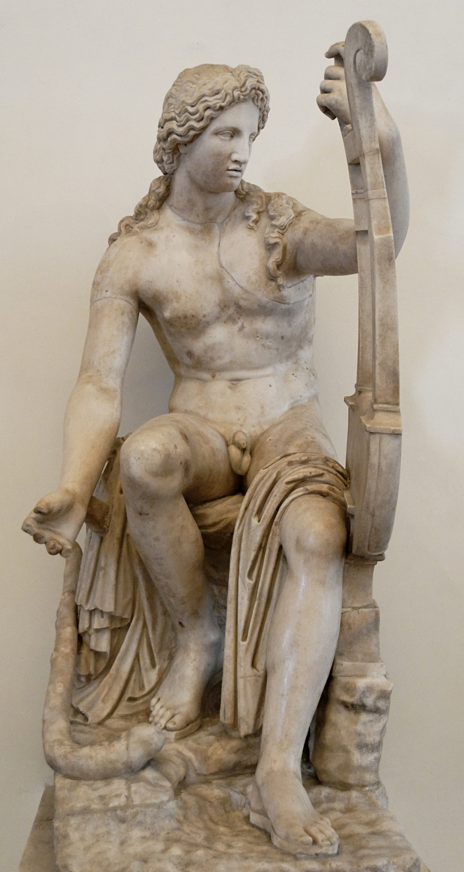 Apollo Kaitharoidos. Marble, original parts (torso and right leg): Roman copy from the Hadrianic period after an Hellenistic original. Heavily restored in the 17th century: head (after the Apollo Lykeios type), left arm and lyre, left leg, drapery and stick.